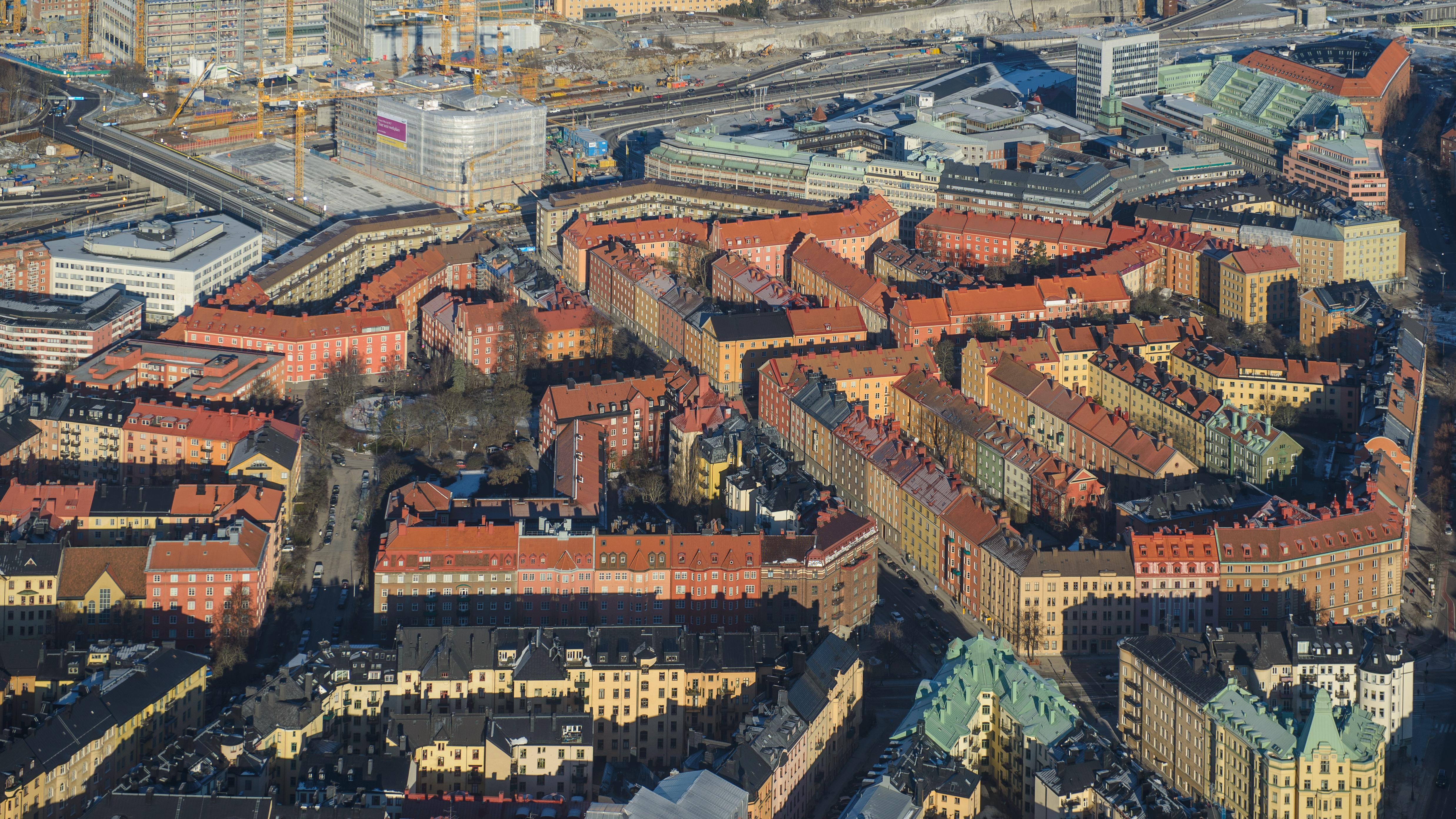 Röda bergen, Stockholm.